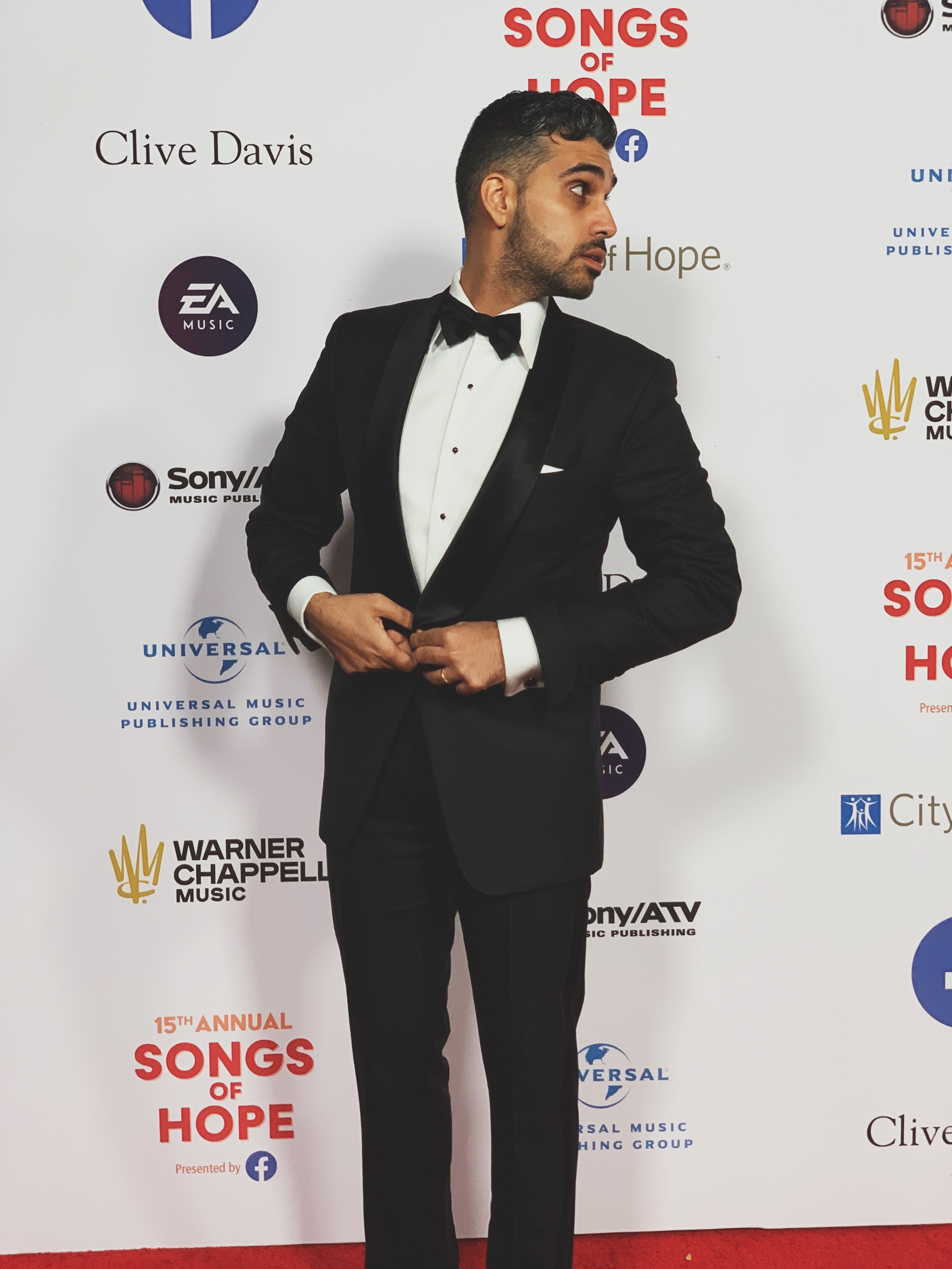 Rebstar at the Songs of Hope 2019 gala in Sherman Oaks, California.